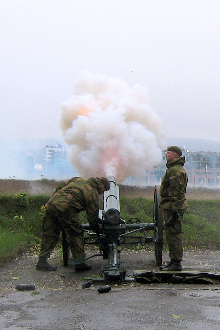 Salutation from Akershus Fortress, Oslo, Norway, on may 17th. Norwegian Independence Day